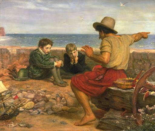 The Boyhood of Raleigh, 1871